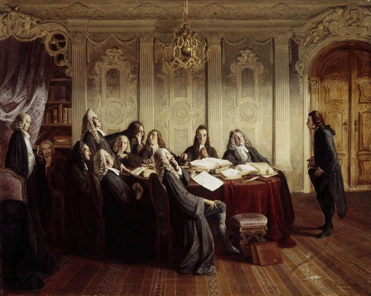 Scene from Carl Arnold Kortum's "Jobsiade": Hieronymus Jobs before the Board of Examiners